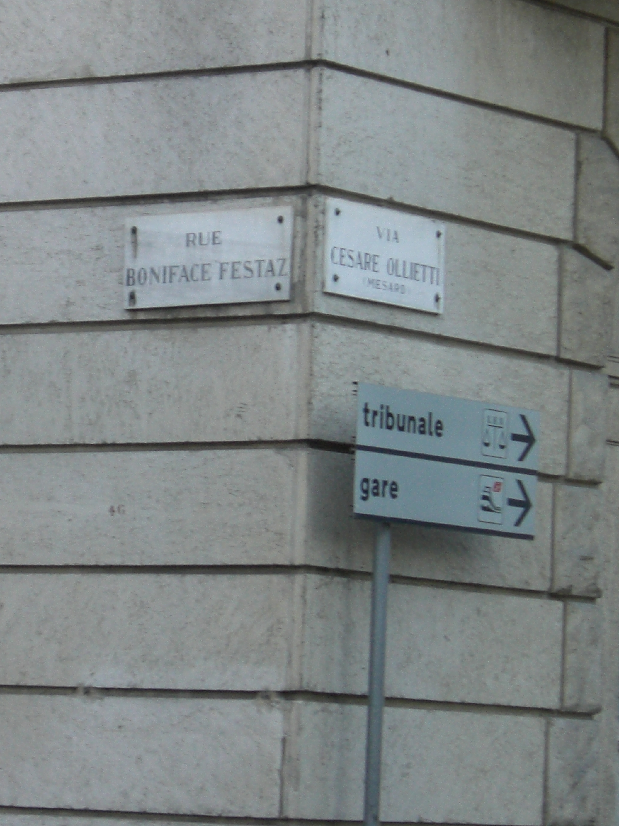 Bilingual road signs in Aosta